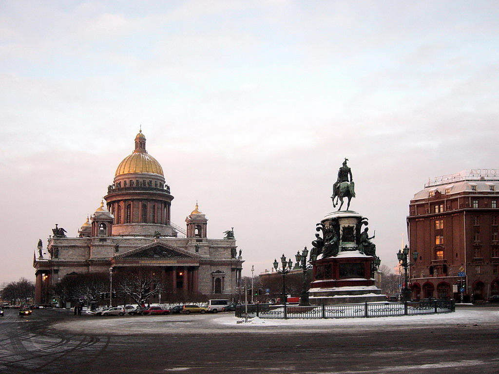 Saint Isaac Square photograph by Evgeny Gerashchenko.